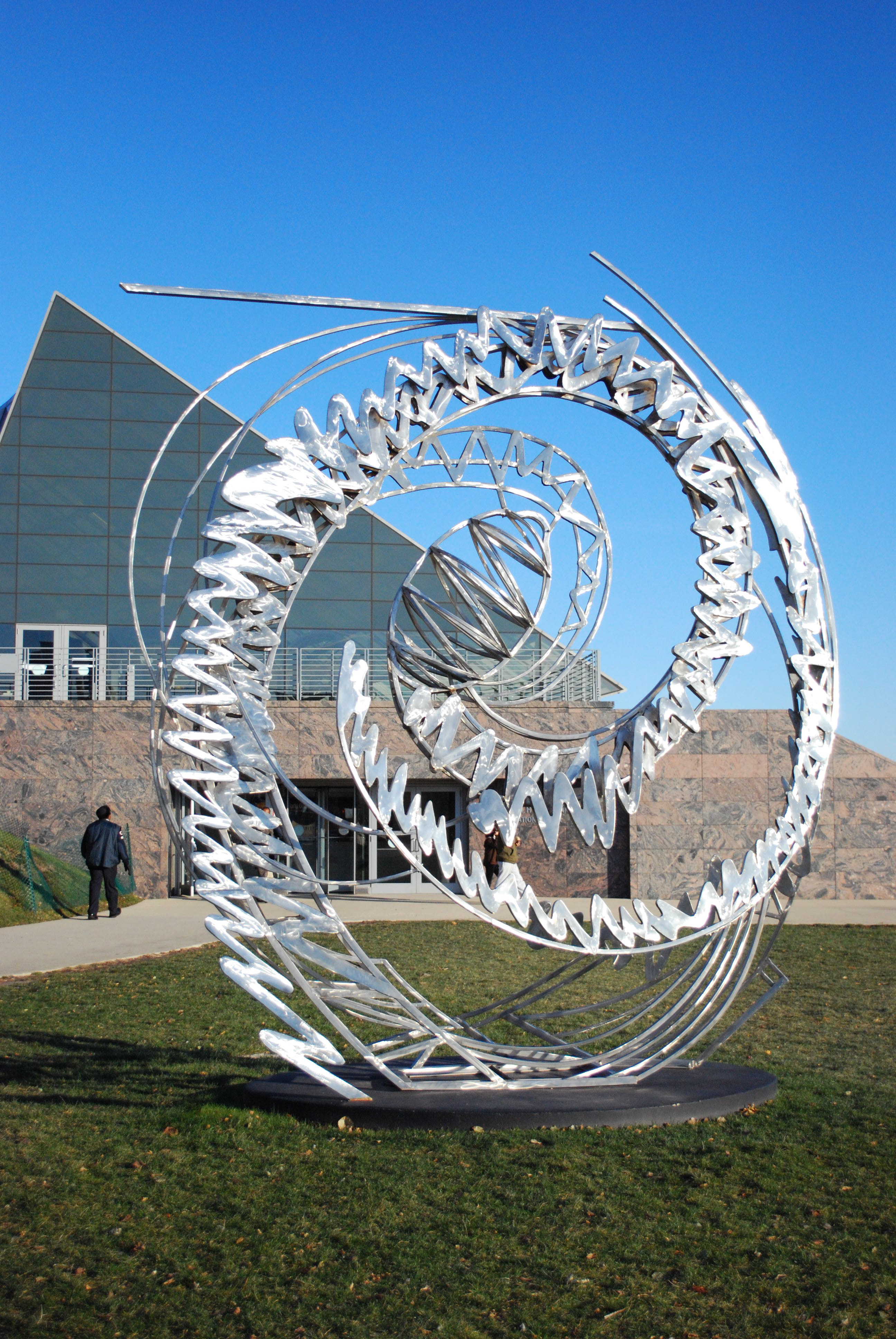 Spiral Galaxy at the Adler Planetarium campus Chicago, IL